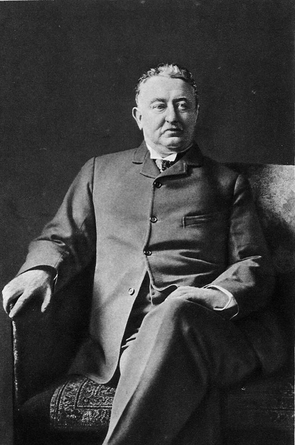 Depicted person: Cecil Rhodes